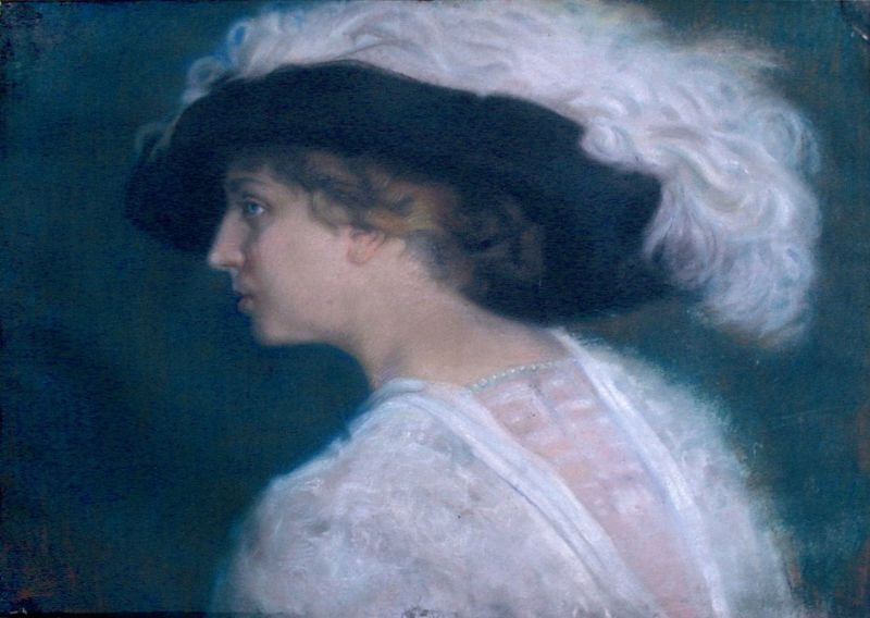 Aneta Hodina (1878-1941), Portrait of Mrs. Georgieva Stefanka